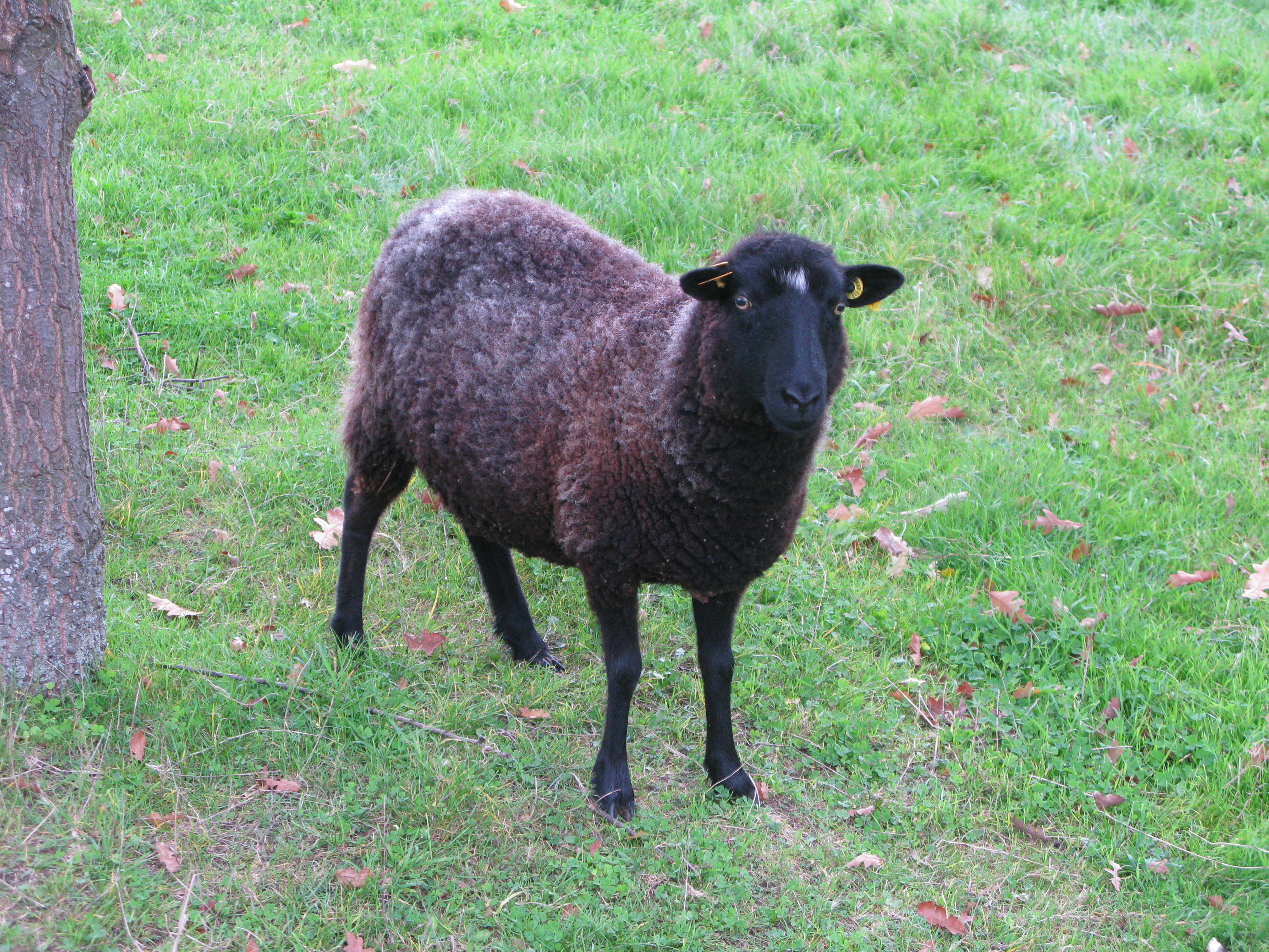 Black sheep (ovis aries) at parc de Sceaux.